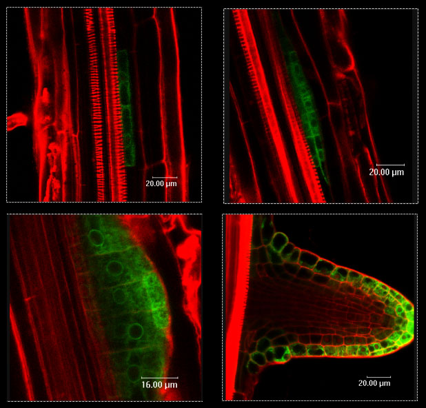 Lateral root primordias marked by GFP in Arabidopsis roots stained with propidium iodide